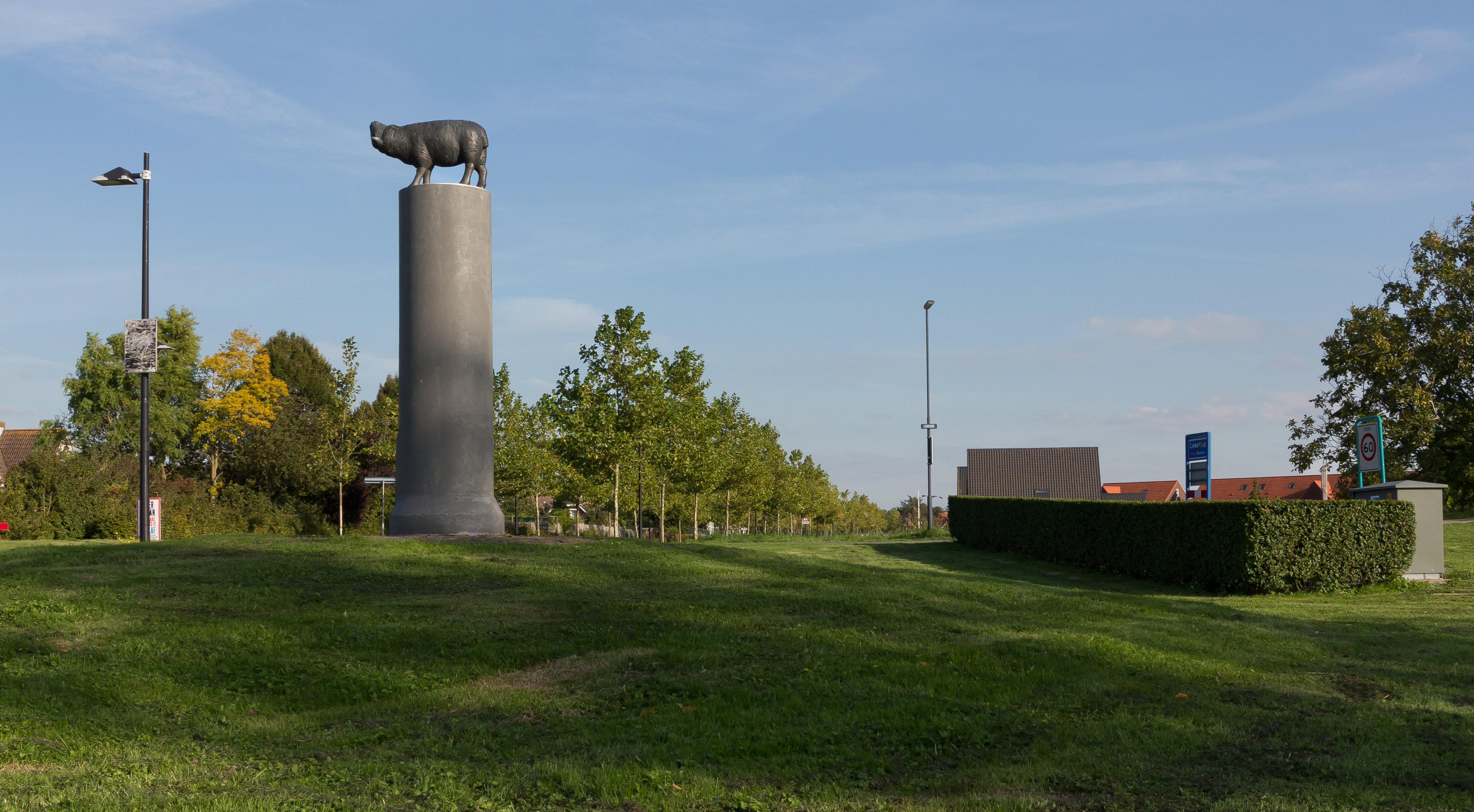 Lewedorp, sculpture in the street